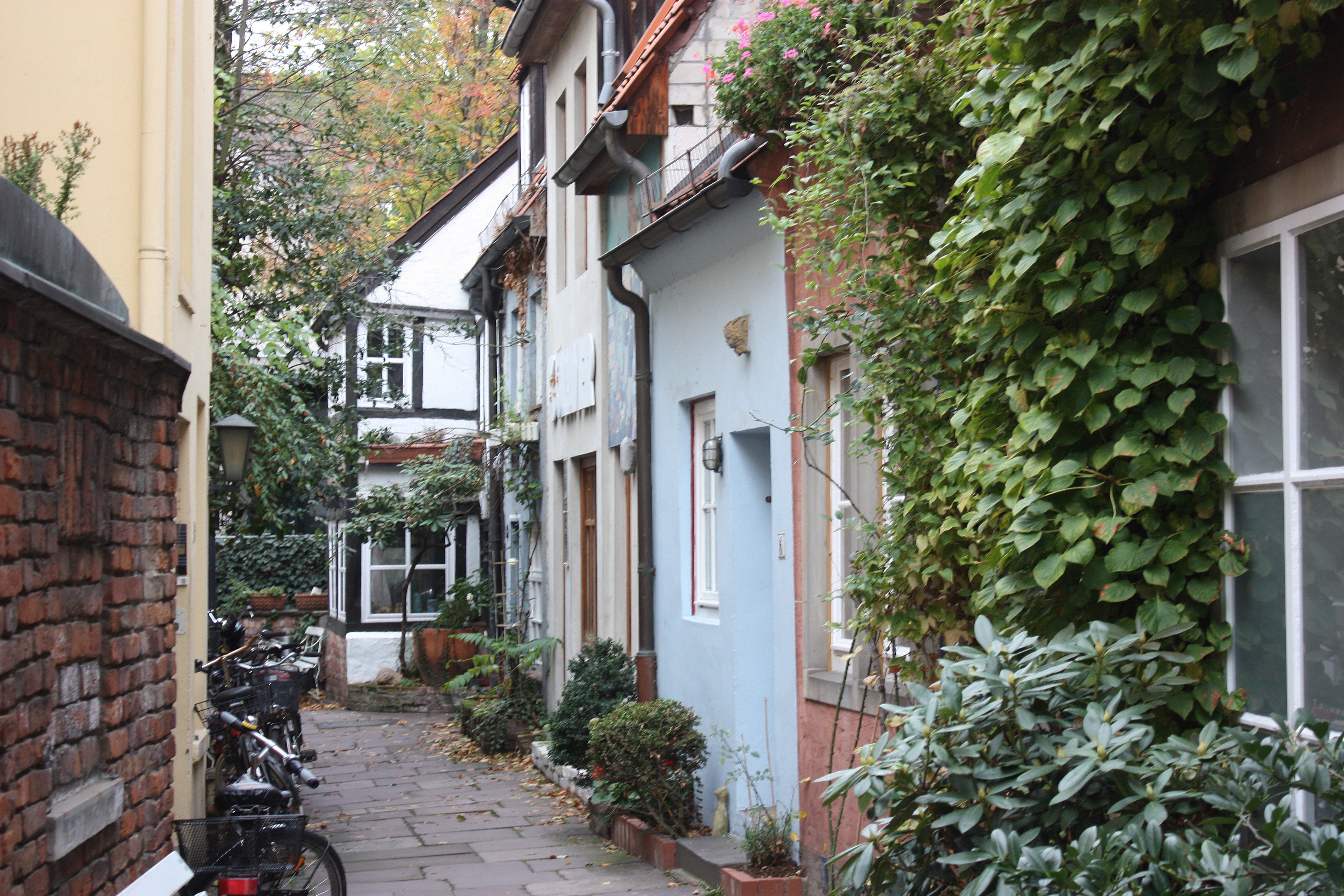 Bremen, the street "Hinter der Balge" in the Schnoor district